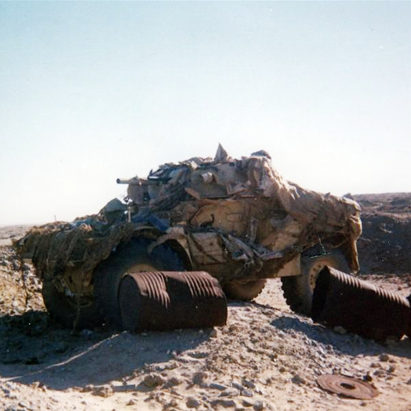 An Eland-60 armoured car under camouflage in the desert. Namibia.